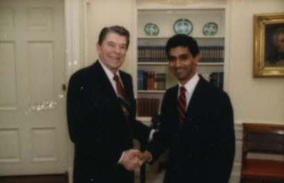 President Ronald Reagan, Gary Bauer, Dinesh D'Souza, Delores Martin, Robert Kirchner, Jan Mares, Bruce Bartlett (Not in all photos) (3-34) Photo Op., with Office of Policy Development Staff